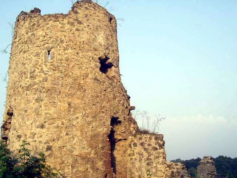 Barilović - Old Fortification